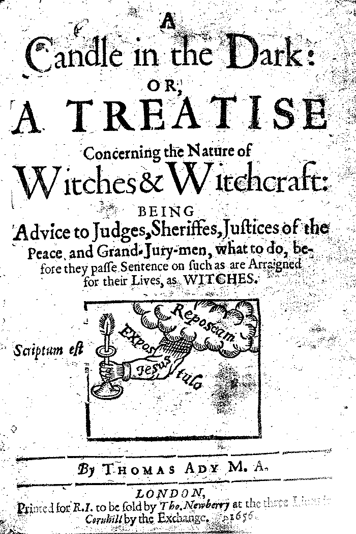 The front page of A Candle in the Dark: or, A Treatise Concerning the Nature of Witches and Witchcraft: Being Advice to Judges, Sheriffes, Justices of the Peace, and Grand-Jury-men, what to do, before they passe Sentence on such as are Arraigned for their Lives as Witches.